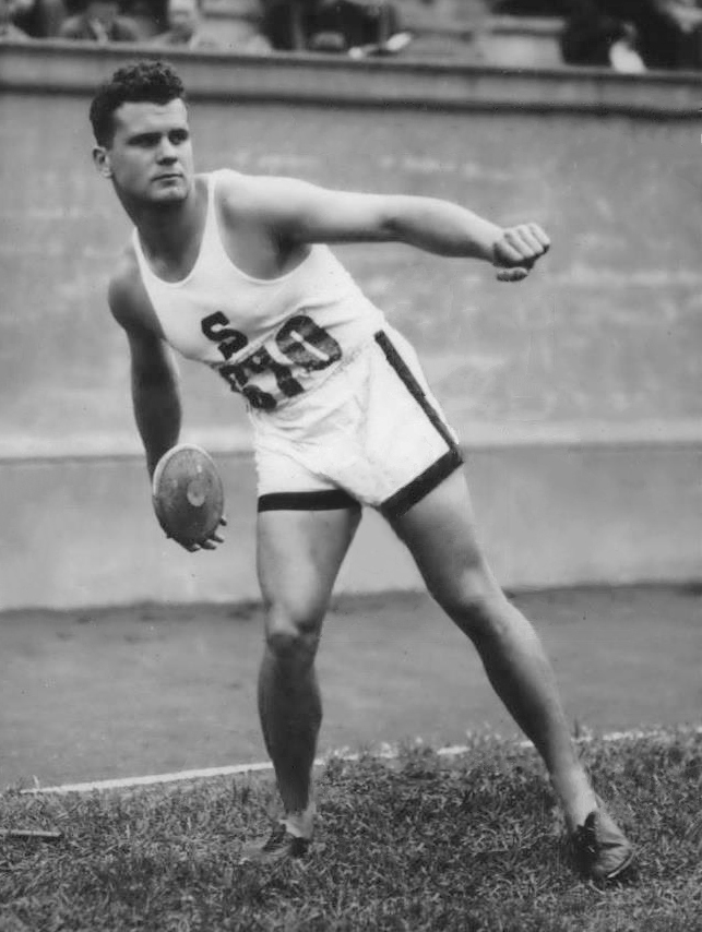 1929 Press Photo Eric Krenz Of Stanform Univ. Breaks World Record Discuss Throw